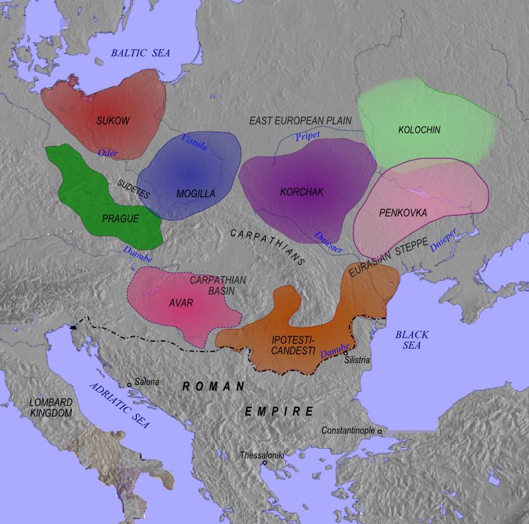 Slavic 'archaeological cultures' at the beginning of the 7th century